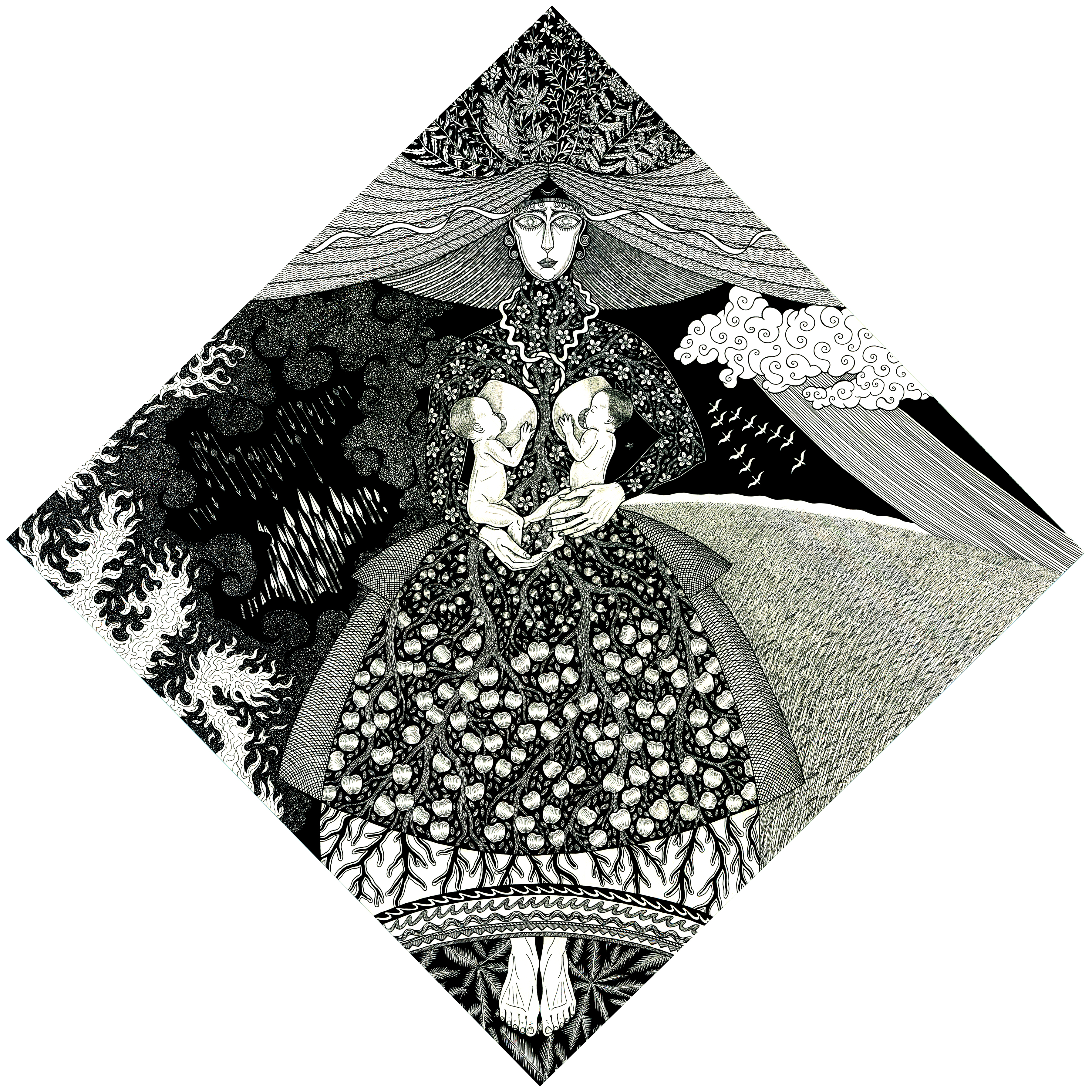 Marzanna Mother of Poland by Marek Hapon